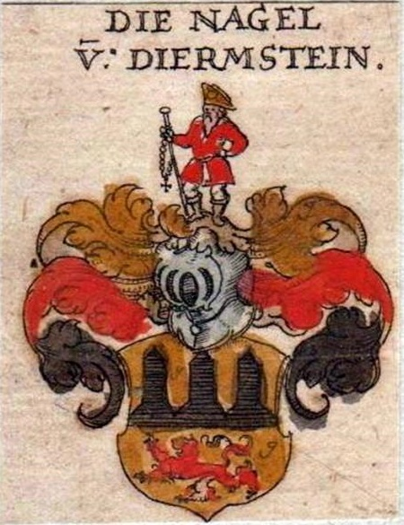 Wappen der pfälzischen Adelsfamilie "Nagel von Dirmstein"